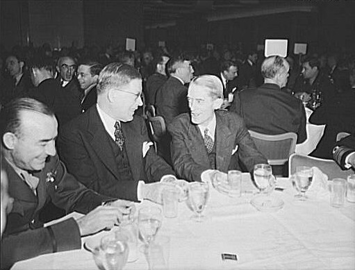 Marvin H. McIntyre (right), secretary to President Roosevelt, with fellow guests, at luncheon on second anniversary of lend-lease, March 11, 1943, at the Hotel Statler, Washington, D.C.